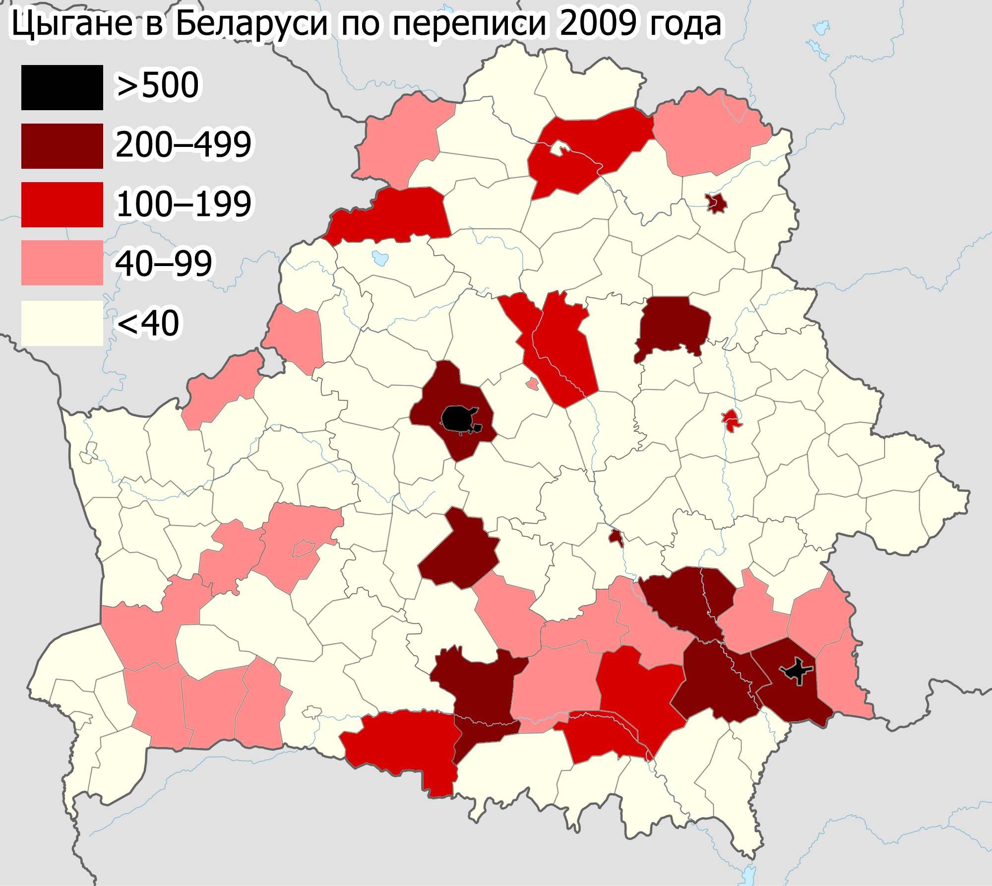 Gypsies in Belarus in districts and major cities according to the 2009 census